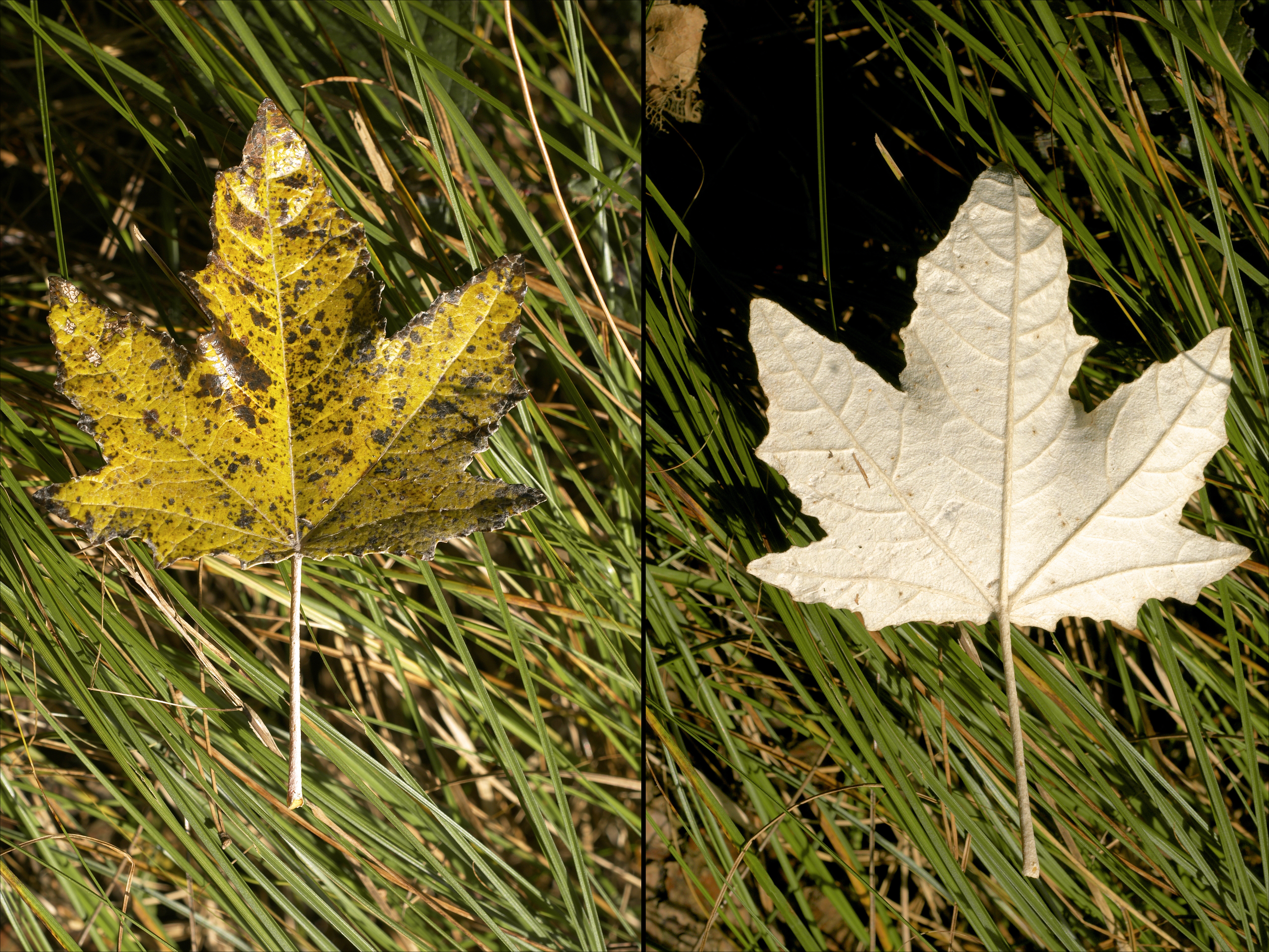 White Poplar at De Haan, Belgium